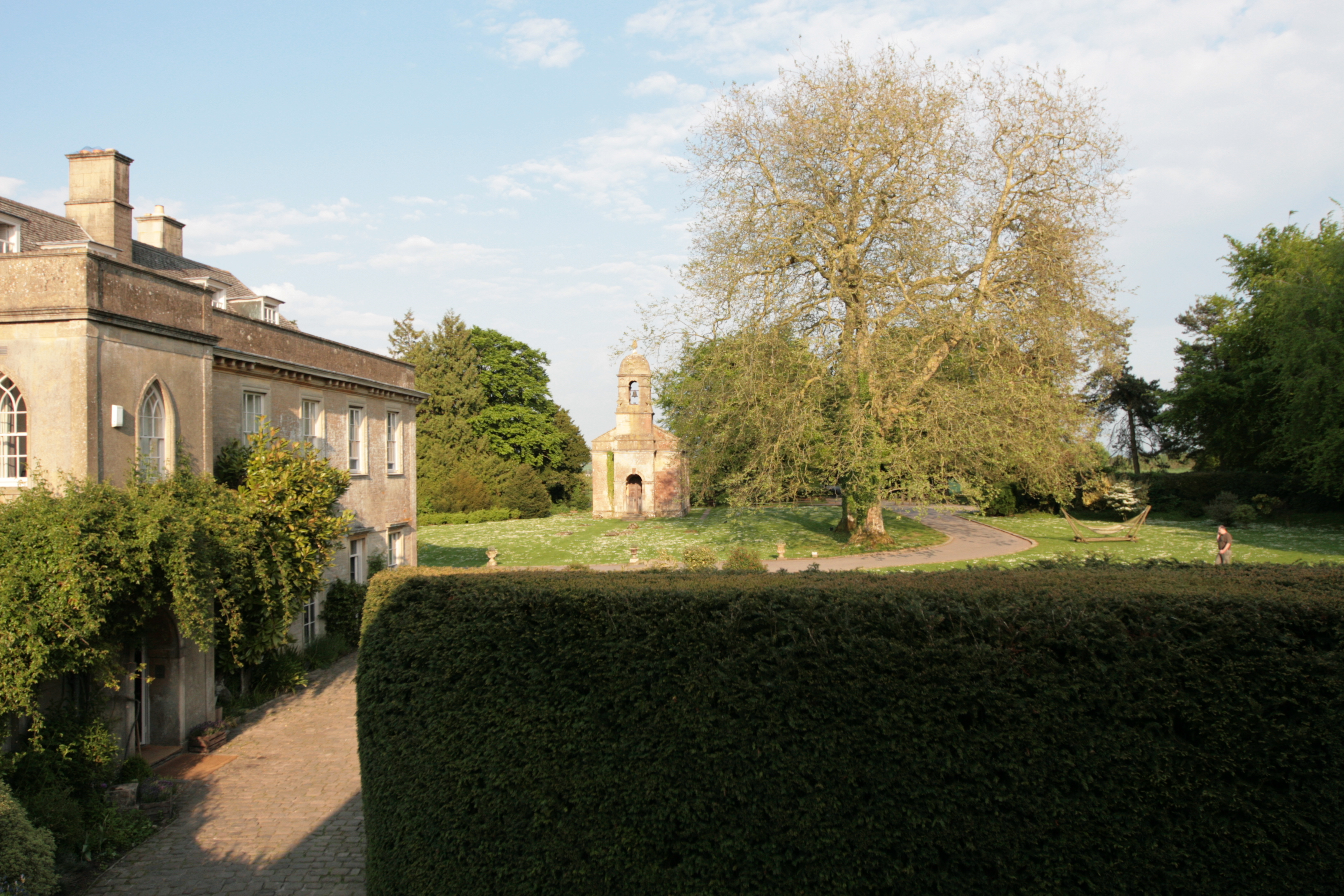 Babington House exterior.